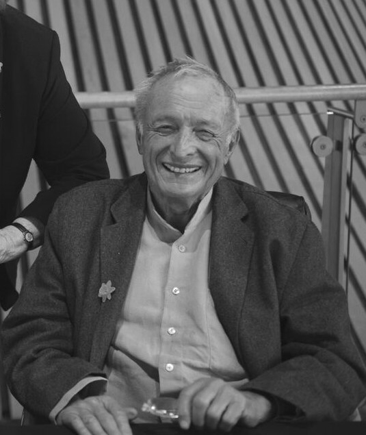 Richard Rogers at the Senedd, Cardiff, Wales